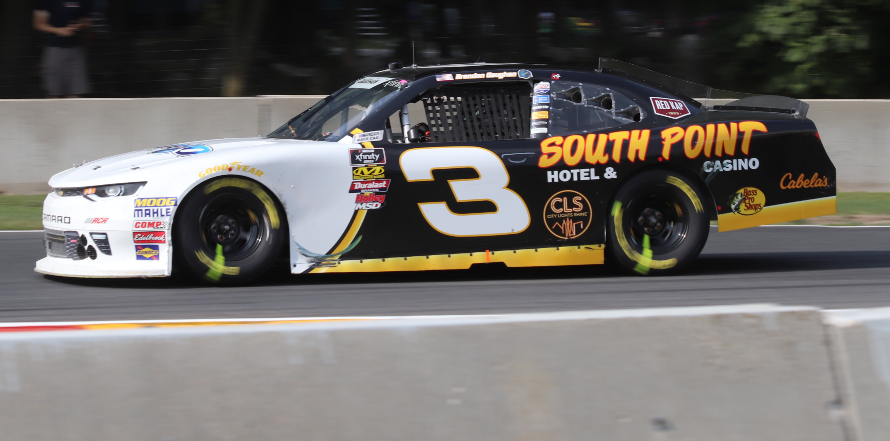 The Chevrolet Camaro of Brendan Gaughan at the NASCAR Xfinity Series Johnsonville 180.